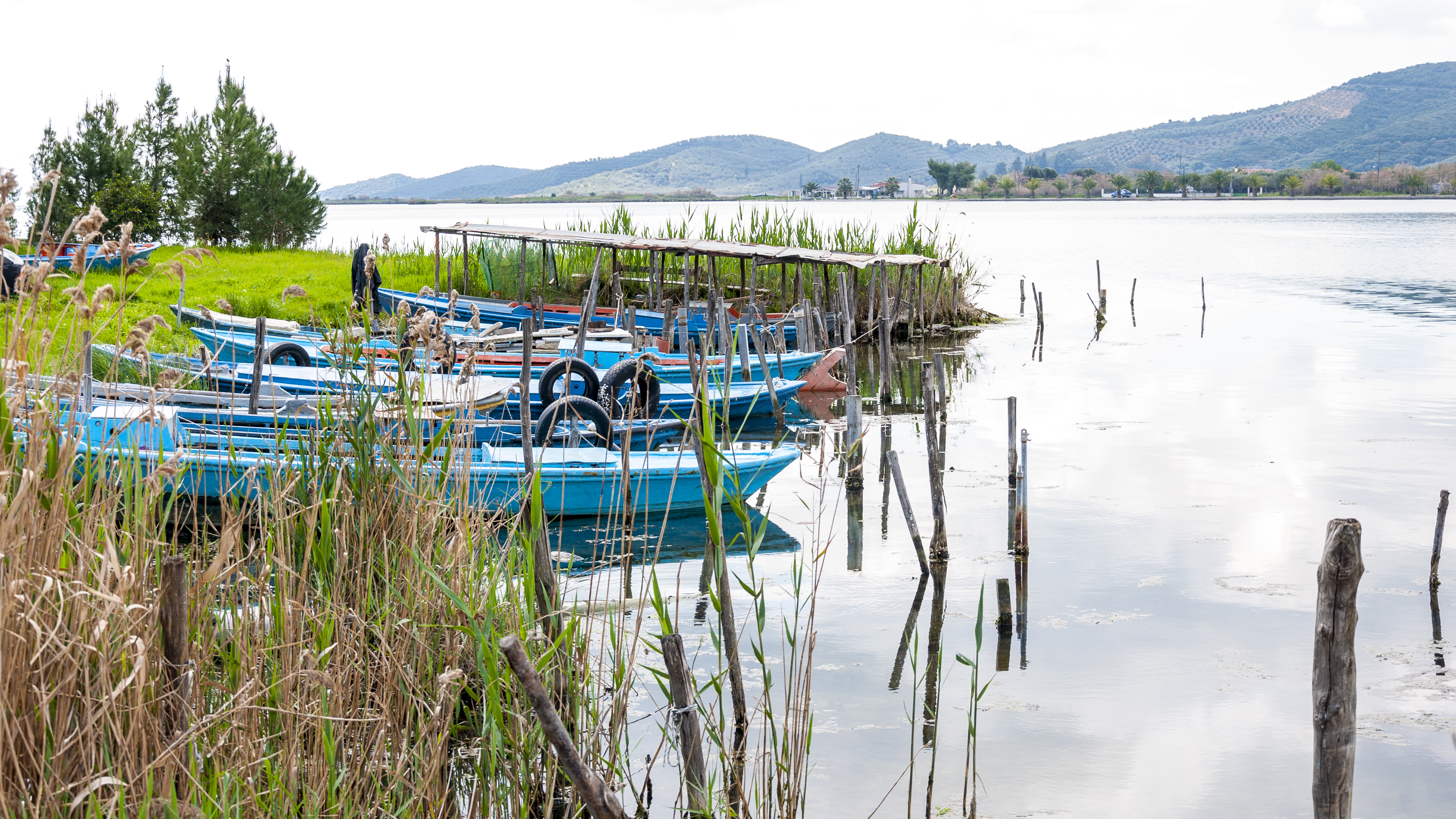 This is a photography of Natura 2000 protected area with ID GR2310015 Λιμνοθάλασσα Αιτωλικού - Aetolikon Lagoon